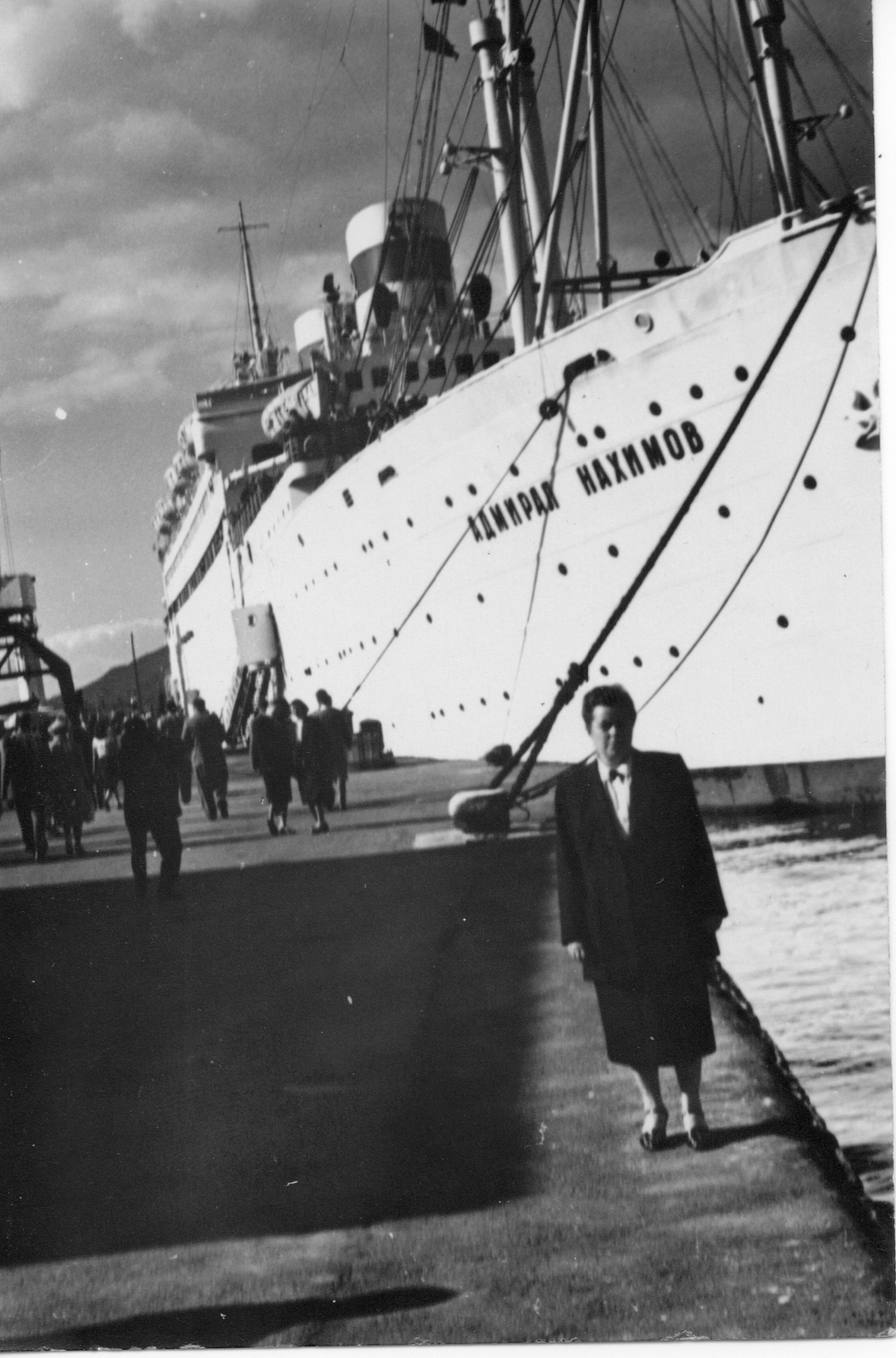 Admiral Nakhimov liner on the Black Sea cruise. 1957.